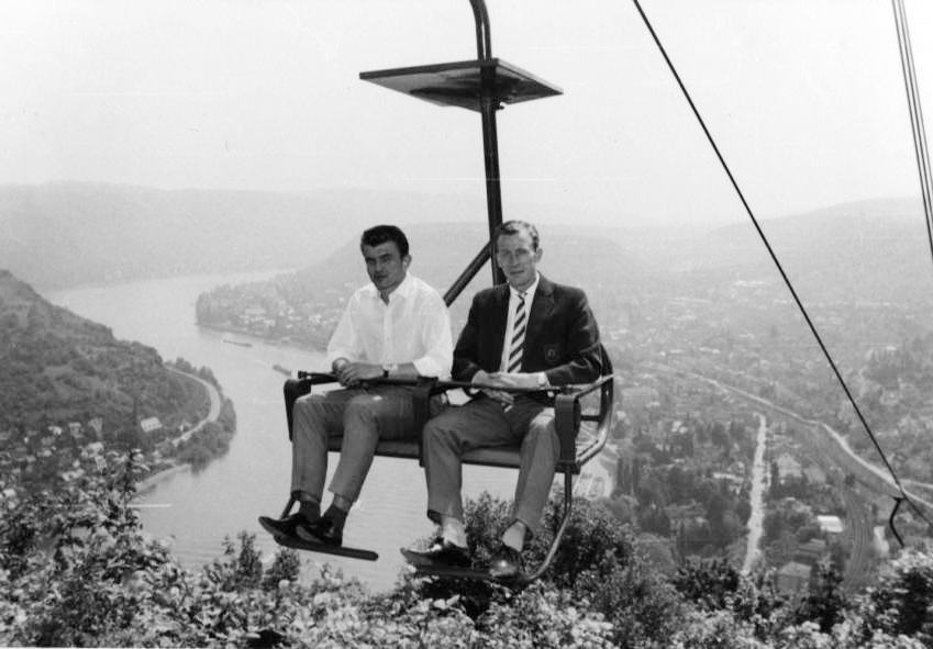 german footballer Gustav Witlatschil (left) and Jupp Marx (right). Chairlift 'Vierseenblicklift' near Boppard.